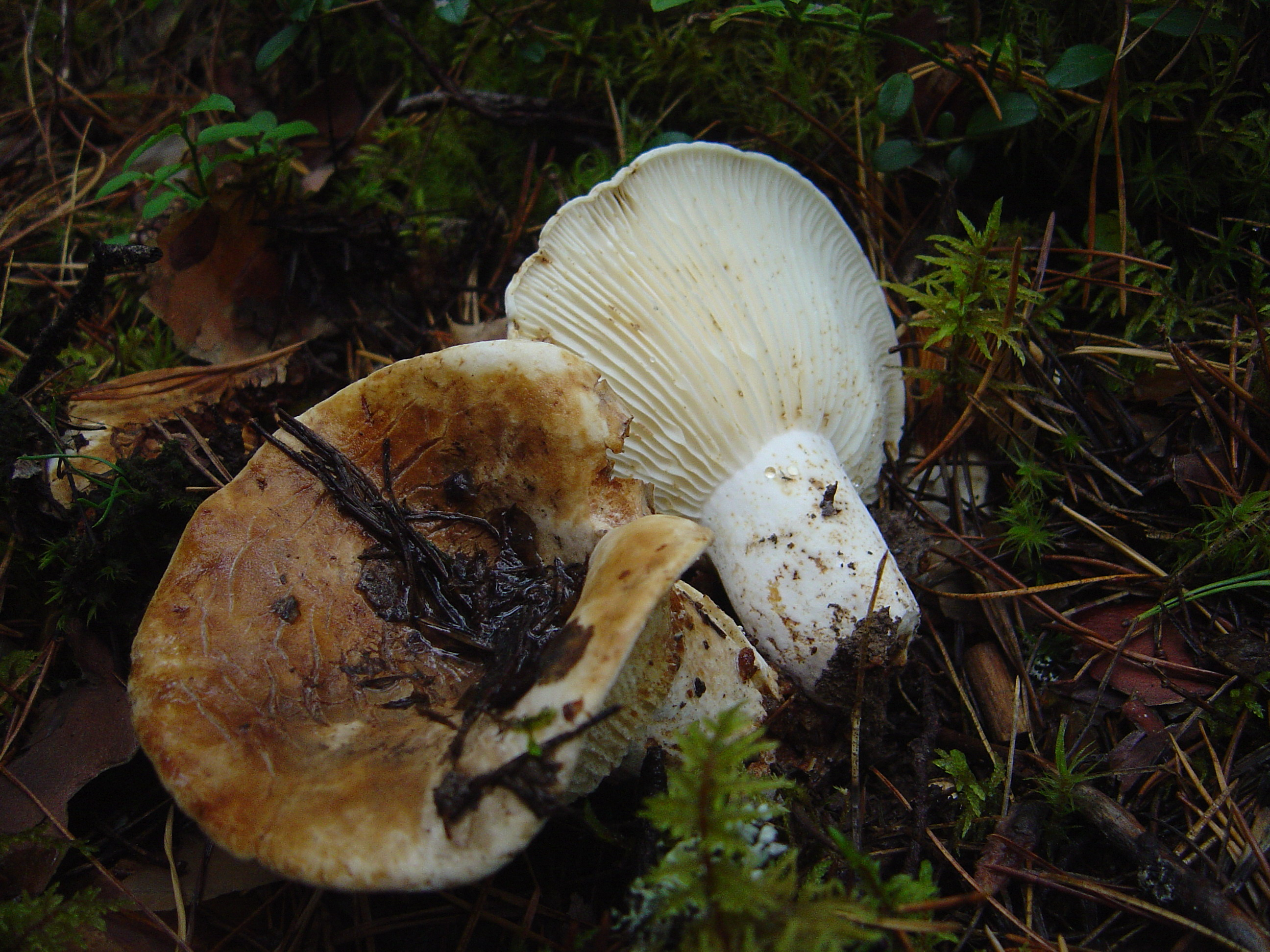 Fruit bodies of the milk mushroom Lactarius bertillonii (Neuhoff ex Z. Schaef.) Bon. Specimens photographed in Basin of Vuyayany River, Yuganskij Reserve, Khanty-Mansi Autonomous Okrug—Yugra, Russia.